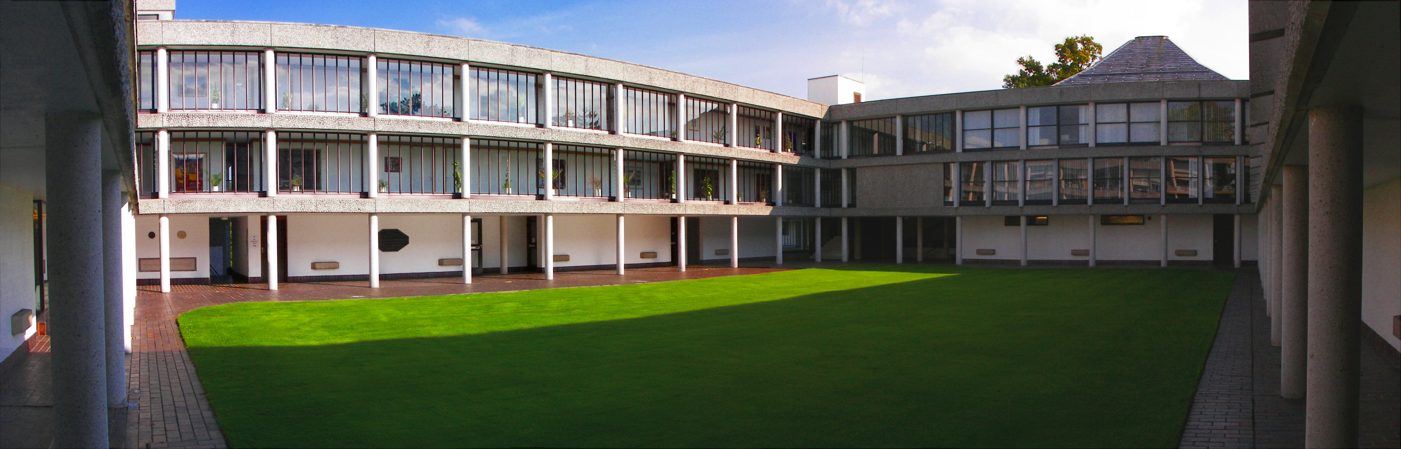 Photo of the Berlin Quadrangle in Wolfson College, Oxford (UK). The Berlin Quad is the main quad of the College and named after Isaiah Berlin, Wolfson's founding President. An octagonal plaque commemorating this is visible at about a quarter of the image width from the left. On the left of the image is located the entrance to the lodge (not really visible), and in the corner of the quad, diagonally opposite the photographer, the marble stairs are visible that give access to the Dining Hall, the Haldane Room and the Common Room. On the right of the image, the top of the pyramidal dining hall roof is visible. This image is a stitching of four separate photos, using Autostitch. I ran 'color enhance' in the Gimp and increased the brightness of the shadowy part slightly.